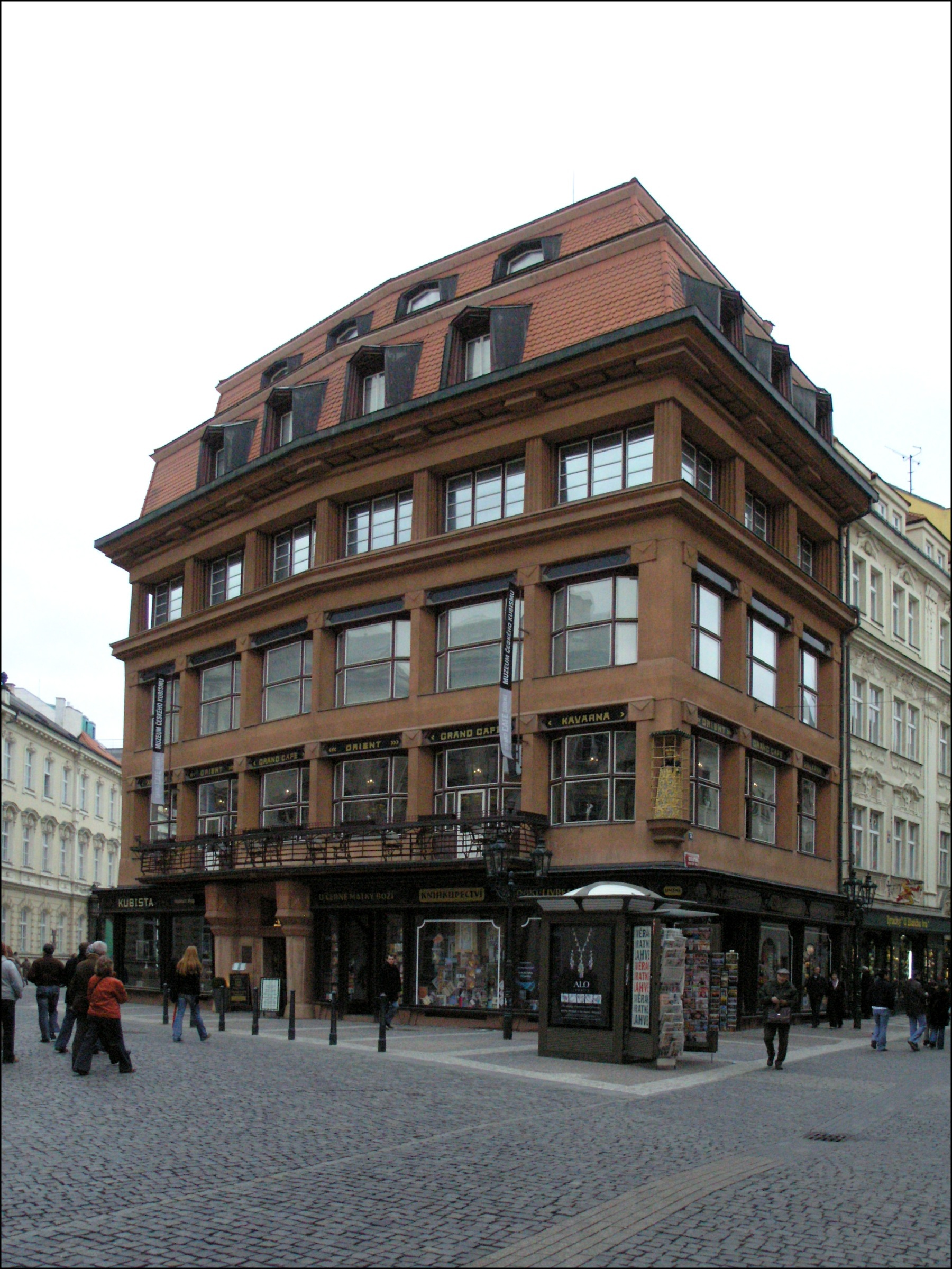 House of the Black Madonna